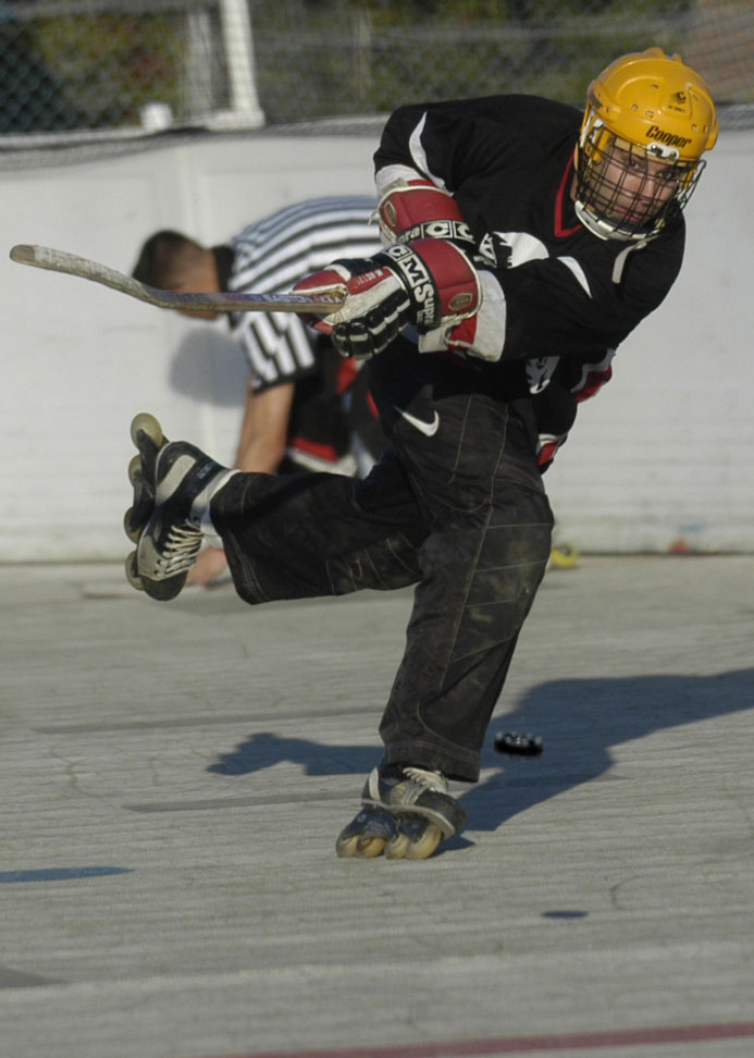 Demetrius Balduc, a right defenseman with the Rampage, unleashes the canon in his team's 7-6, double-overtime victory aganist NADEP in the Cherry Point Intramural Hockey Championship, May 9.